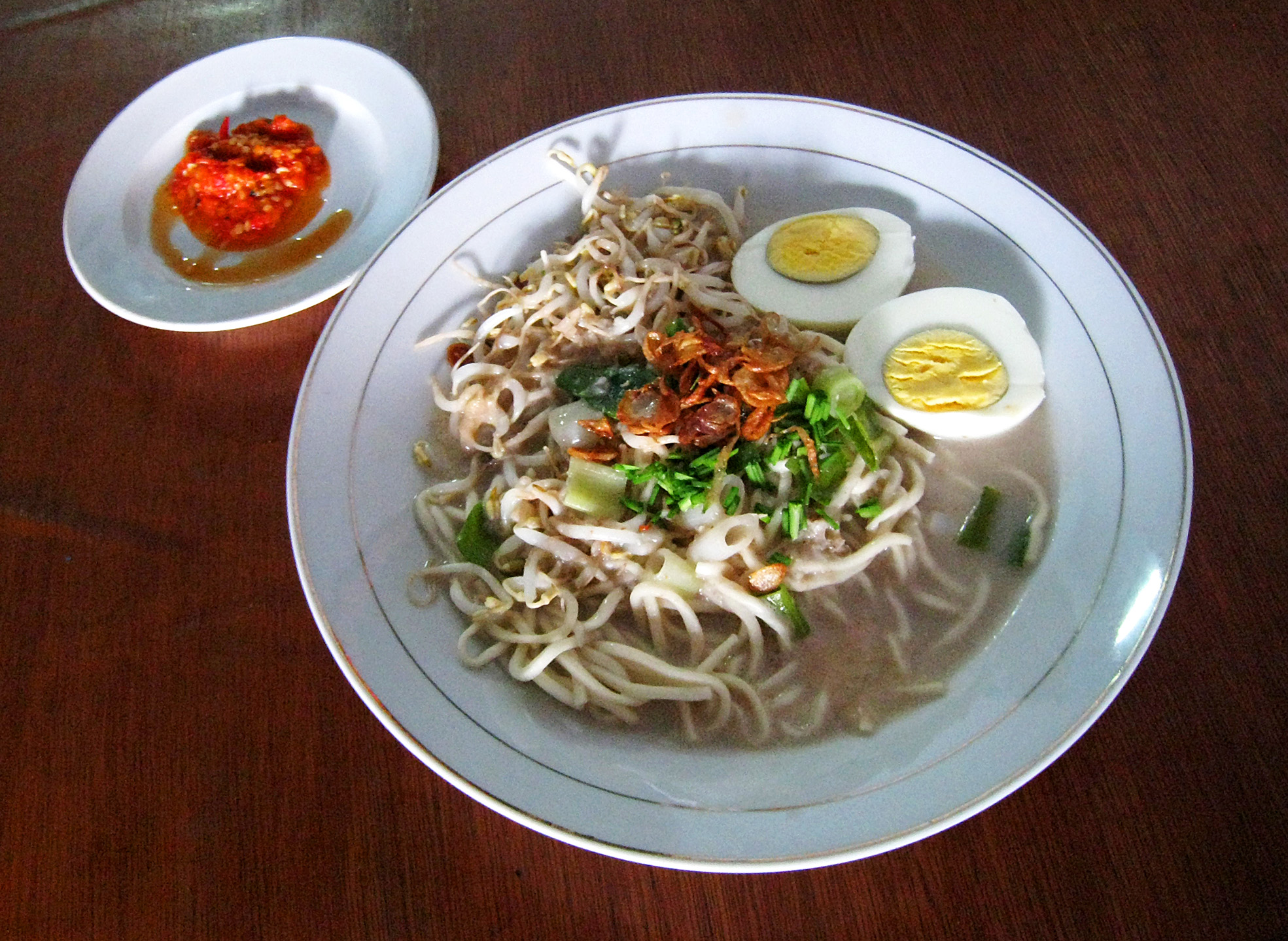 Mie Celor, a Palembang South Sumatran style of noodle and egg dish. With beansprout, fried shallots and accompanied with sambal. The white sauce is made from a mixture of coconut milk, spices and "ebi" or dried shrimp that gaves unique taste.